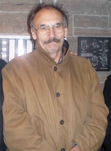 Photo of Dušan Petričić in Toronto. This photo was used in the following places